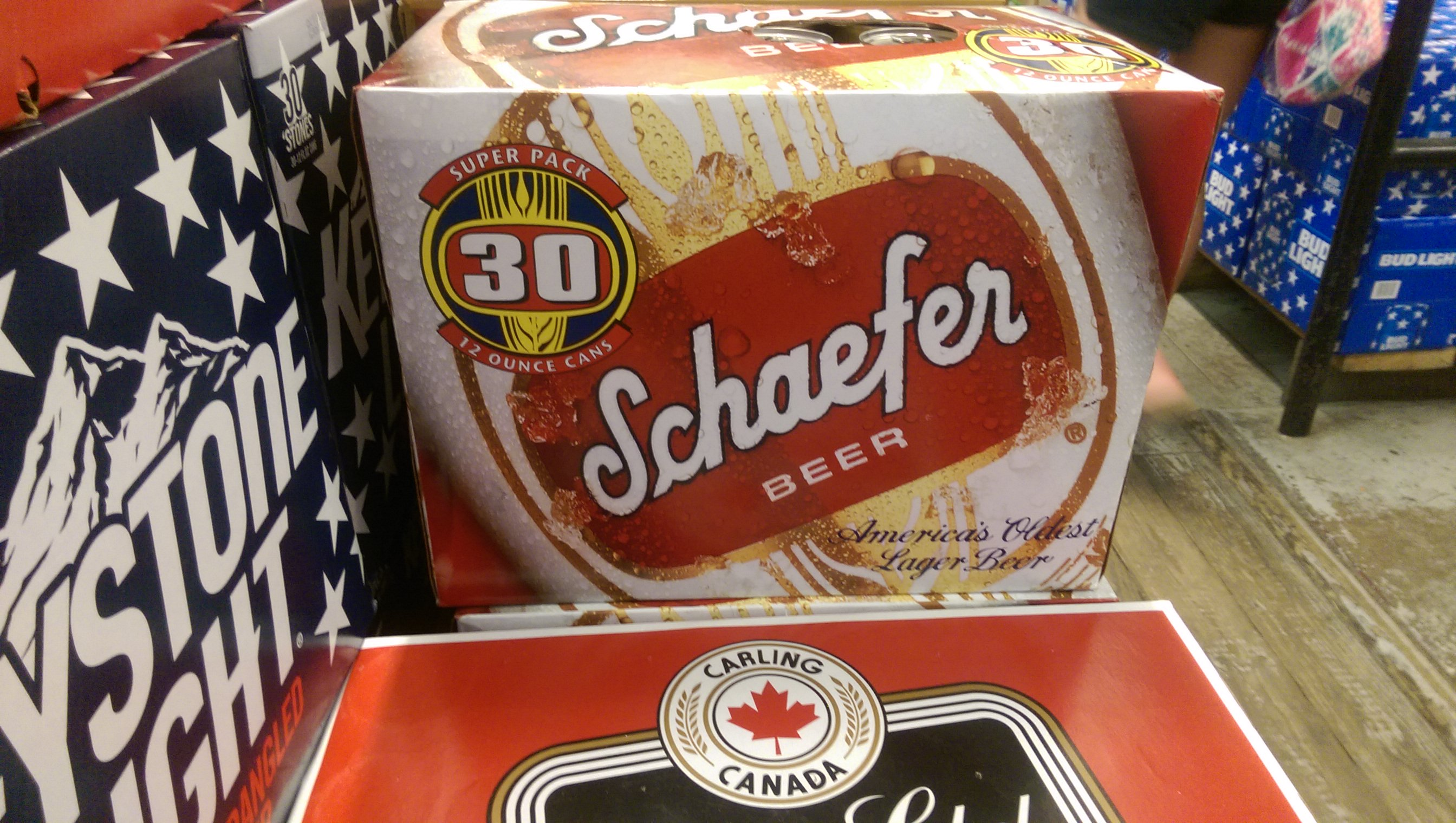 A case of thirty cans of Schaefer Beer.